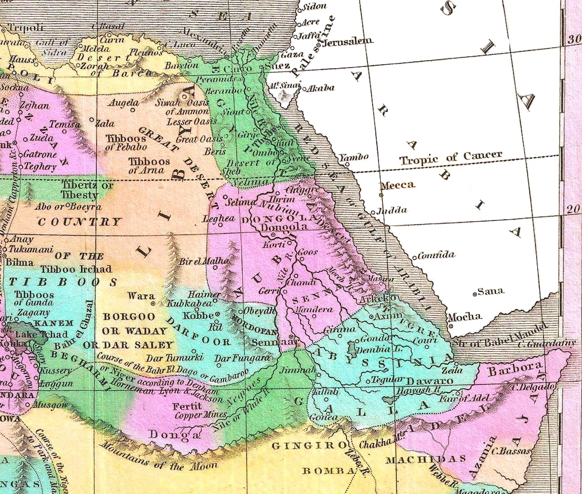 A beautiful example of Finley's important 1827 map of Africa. This uncommon map predates the explosion of African exploration that occurred in the mid 19th century. Much of the interior remains unknown. The Ptolemaic Mountains of the Moon are drawn stretching across the central part of the continent with the suggestions that they are the source of several branches of the Nile. Several speculative courses are drawn for the Niger River, one of which joins it to the Nile, another of which flows south of the Mountains of the Moon into the Congo, and yet another of which, correctly, bends southwards to empty into the Bight of Biafra. It identifies numerous African tribes throughout, including the Pomba, Jaga, Timbuctoo, Tuareg, Tibboos, Bambara, and others. It also identifies a land of cannibals in Mozambique. Title and scale in lower left quadrant. Engraved by Young and Delleker for the 1827 edition of Anthony Finley's General Atlas.